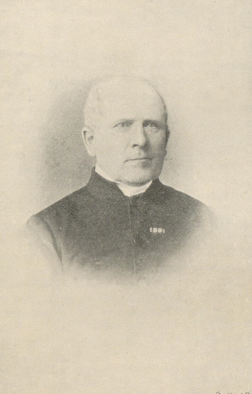 Magnus Böttger